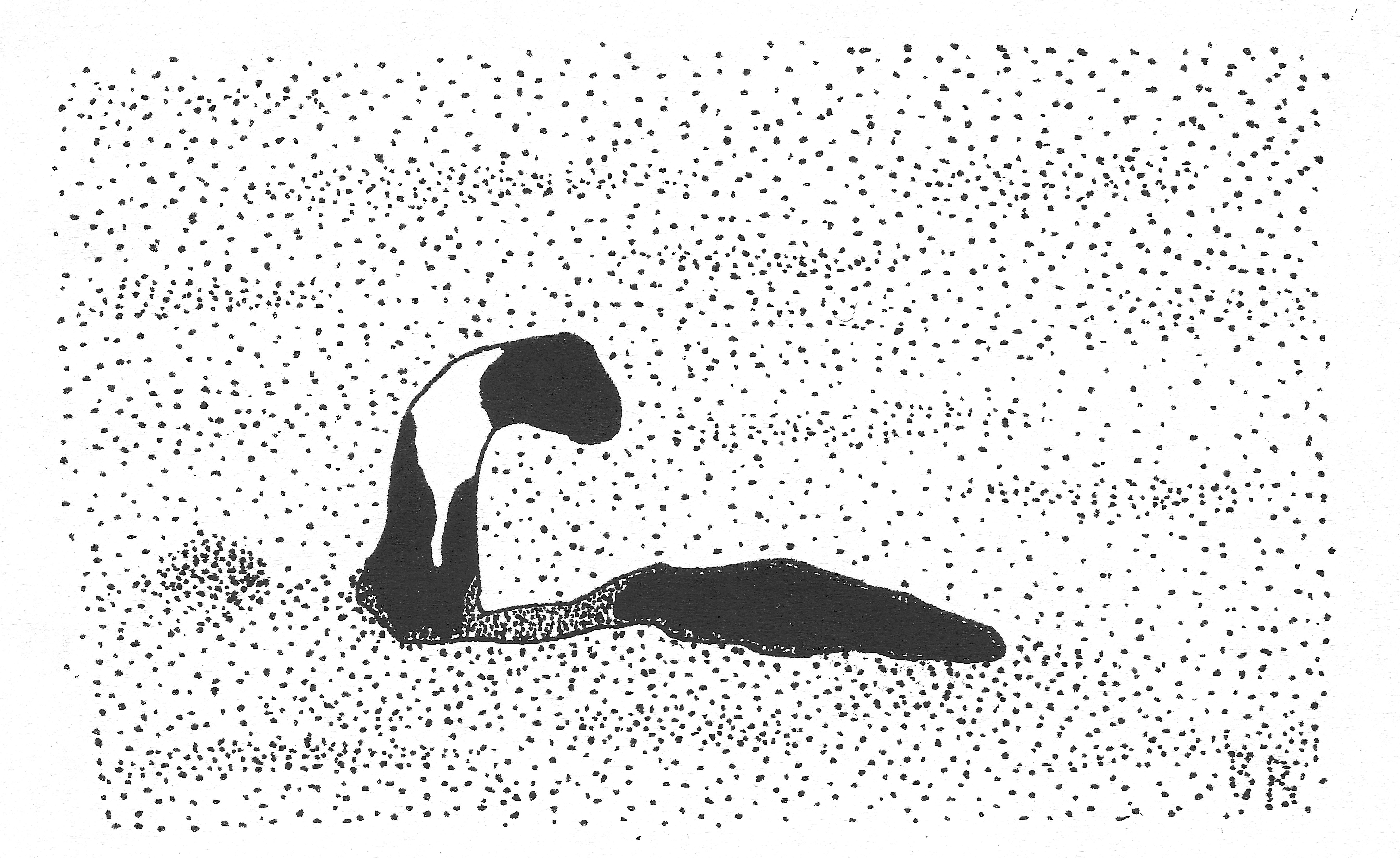 Artistic representation of Sandra Mansi's 1977 photograph of "Champ" monster. Illustration by Benjamin Radford.